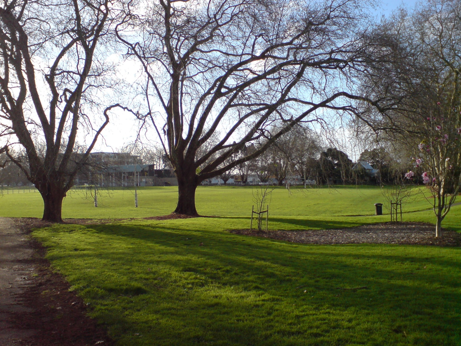 enVictoria Park in Auckland City, New Zealand. View over the sports field to the north.